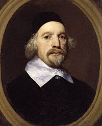 Edward Nicholas (1593-1669)